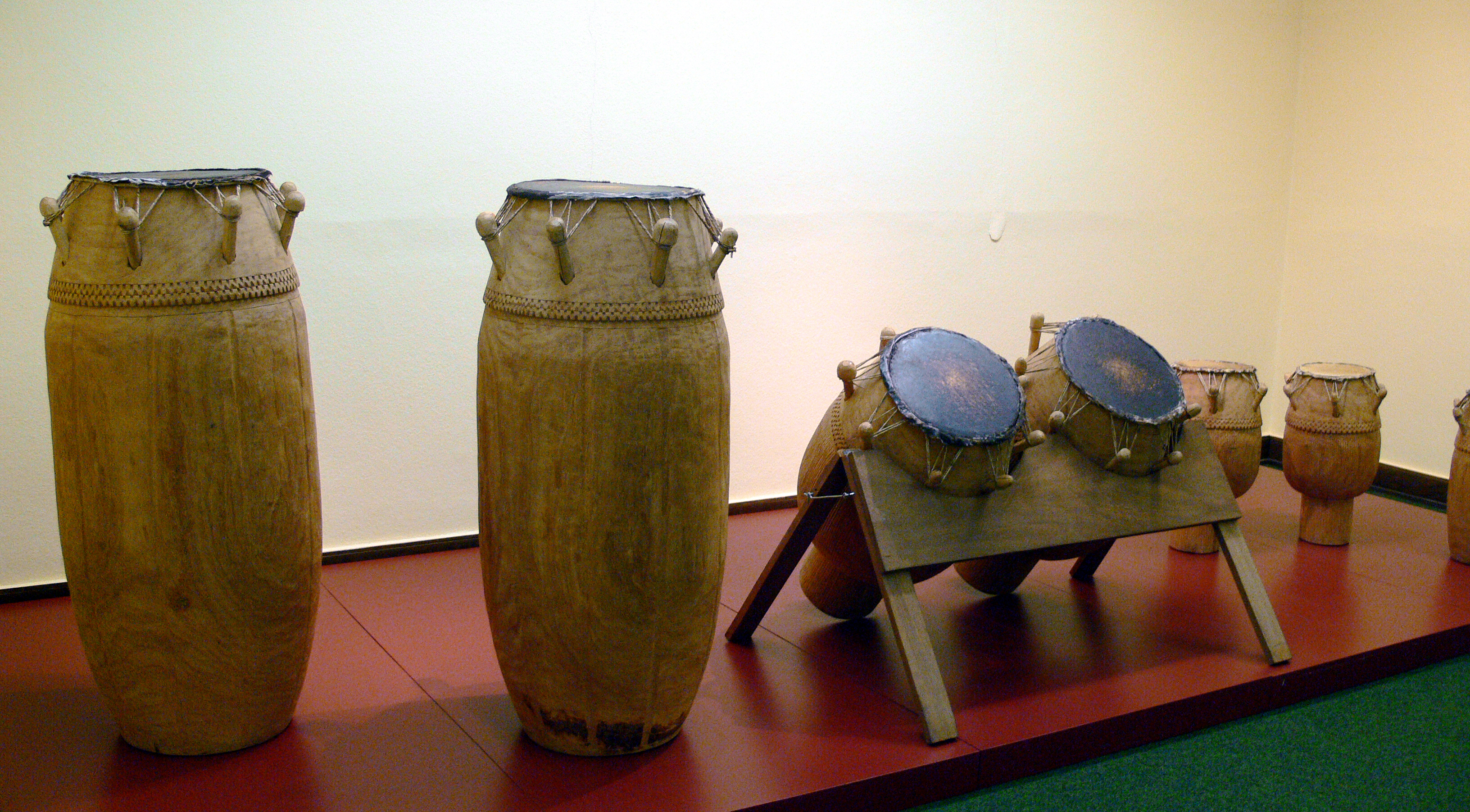 fontomfrom orchestra drums from Ghana; Ashanti; Department of Music Ethnology, Ethnological Museum, Berlin, Germany